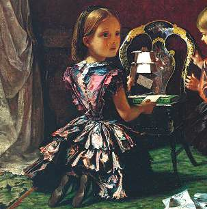 Wikipedia page - the model for the girl with the cards is Jane Frith